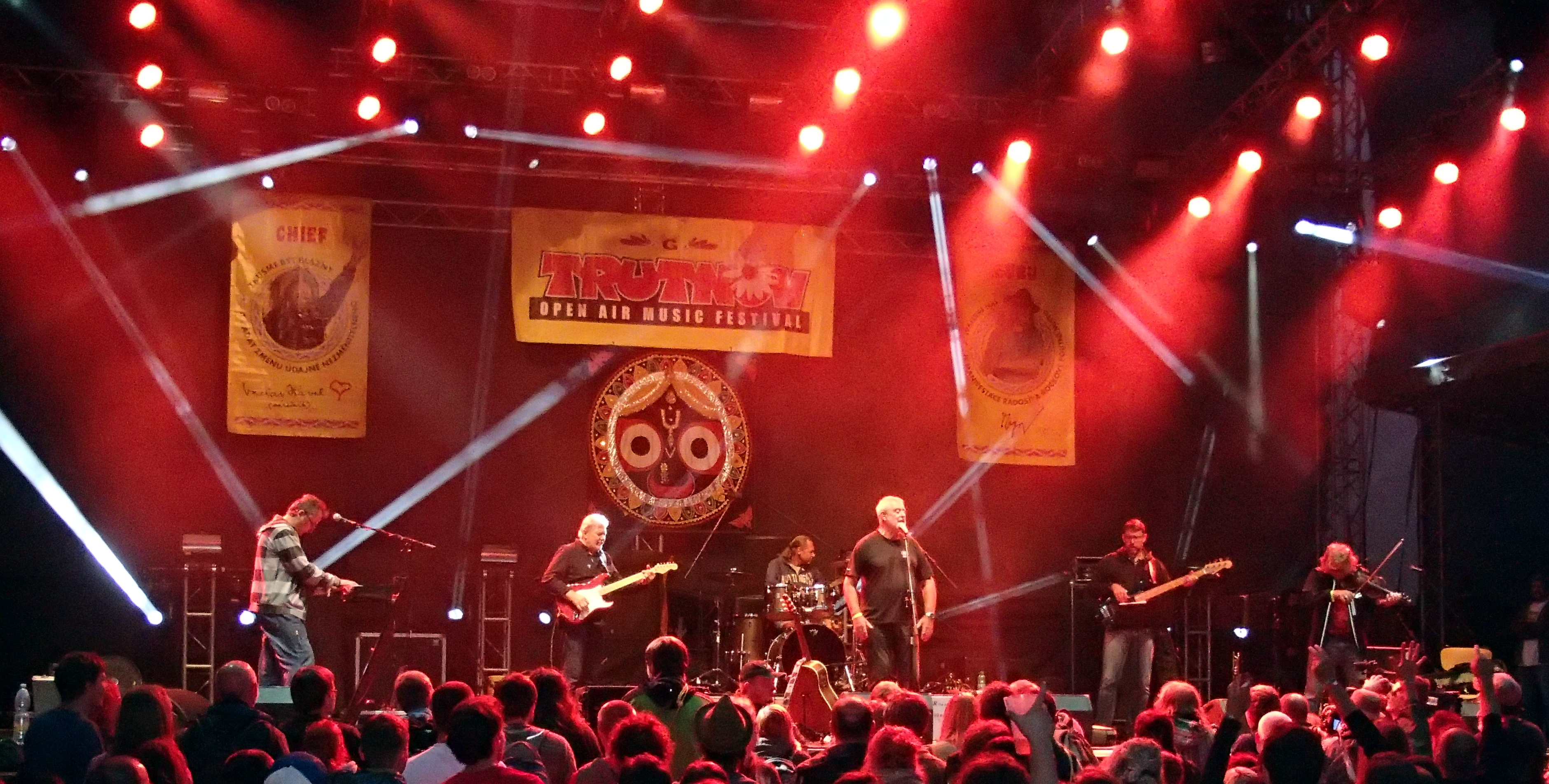 Trutnov Open Air Music Festival 2014 Michal Prokop & Framus Five at Trutnov Open Air Music Festival 2014